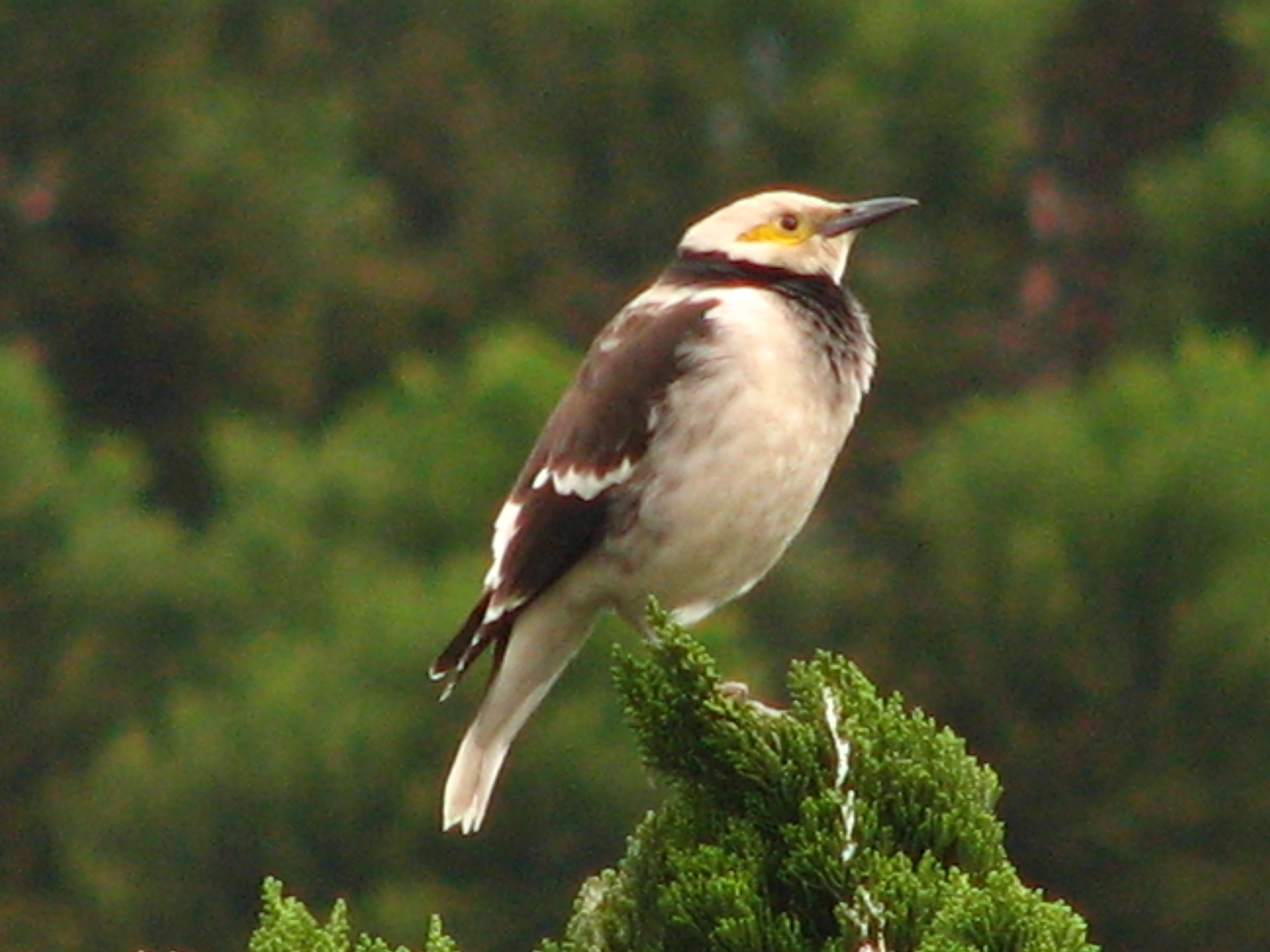 Sturnus nigricollis on Taiwan, where it is a naturalised species. Taipei City.